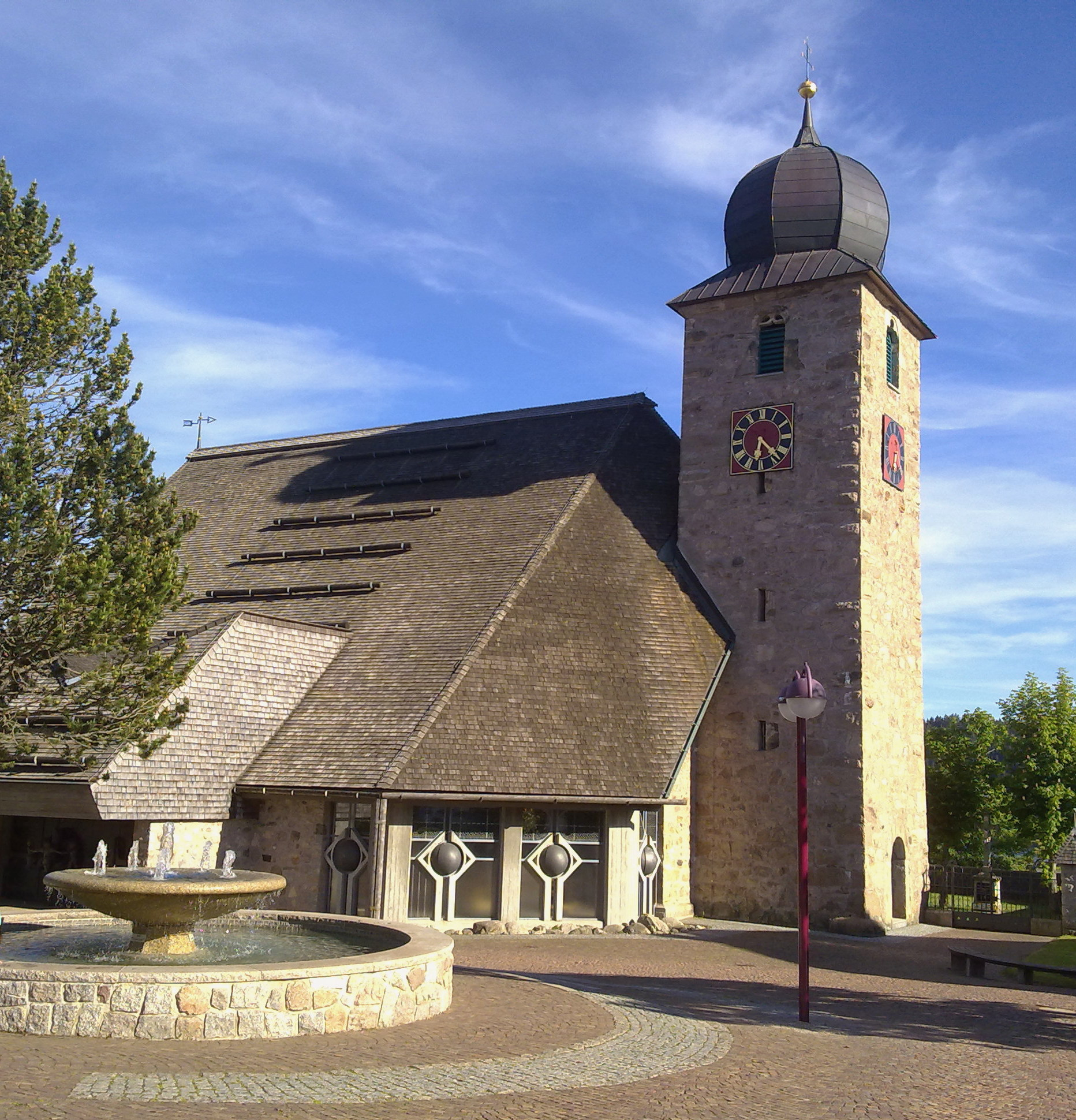 St. Nikolaus Church, Schluchsee, Germany.